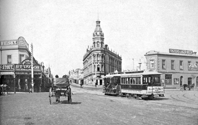 St.Kilda Junction before demolition of the southern side of High Street.